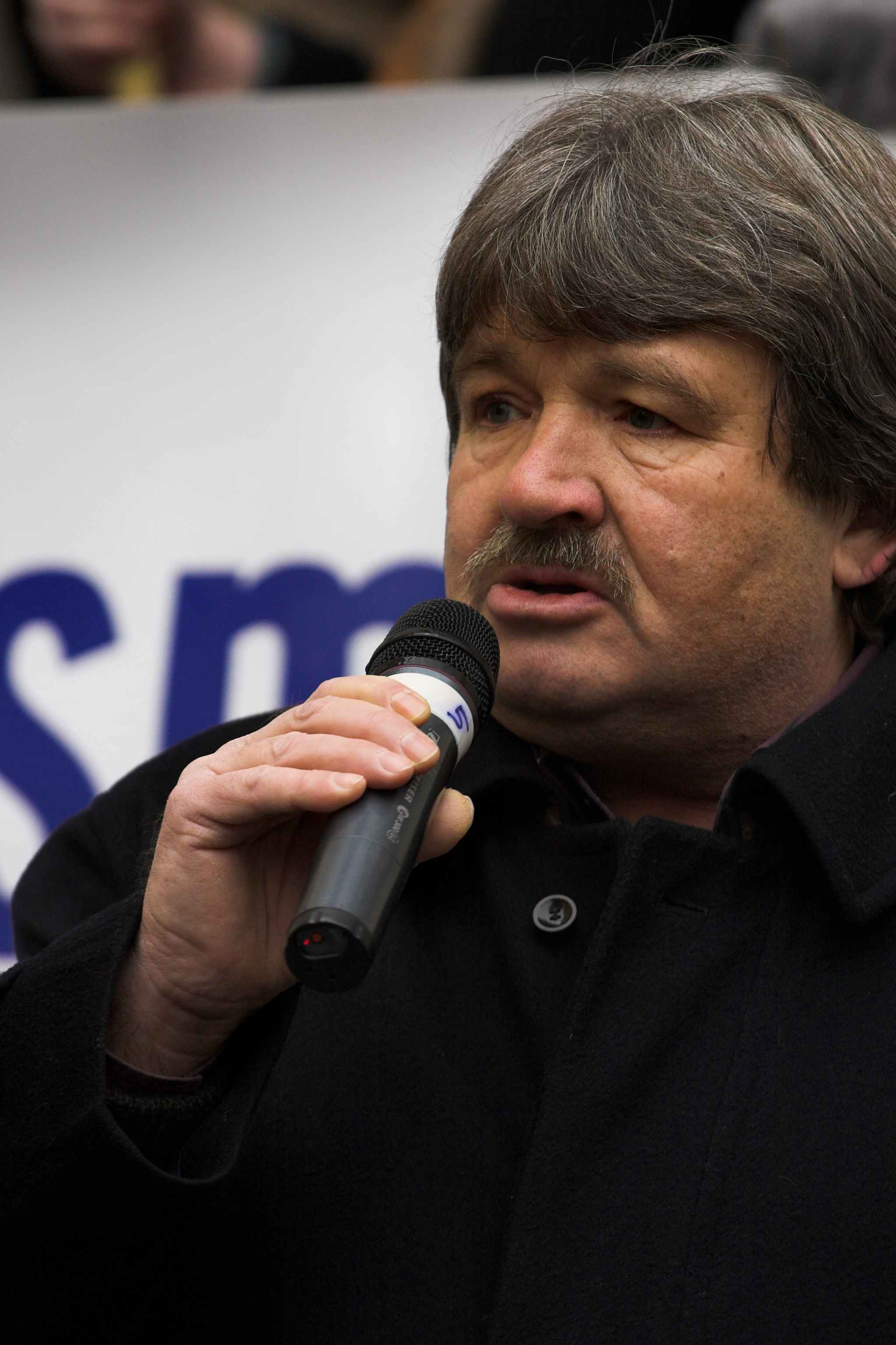 Former minister of the czech goverment in years 1992 to 1997, Jindřich Vodička at demonstration for Izrael, January 2009.